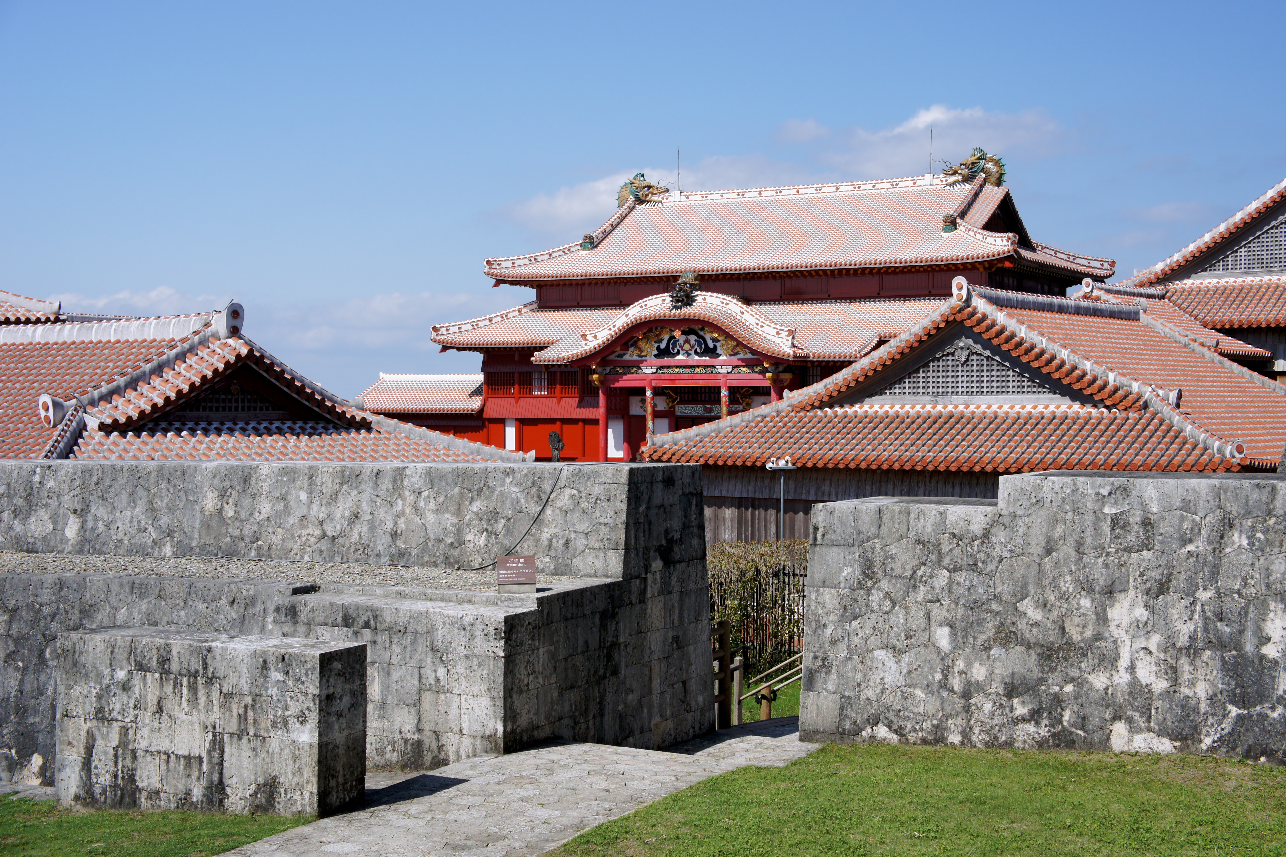 Shuri Castle in Naha, Okinawa prefecture, Japan. It was registered as part of the UNESCO World Heritage Site "Gusuku Sites and Related Properties of the Kingdom of Ryukyu".